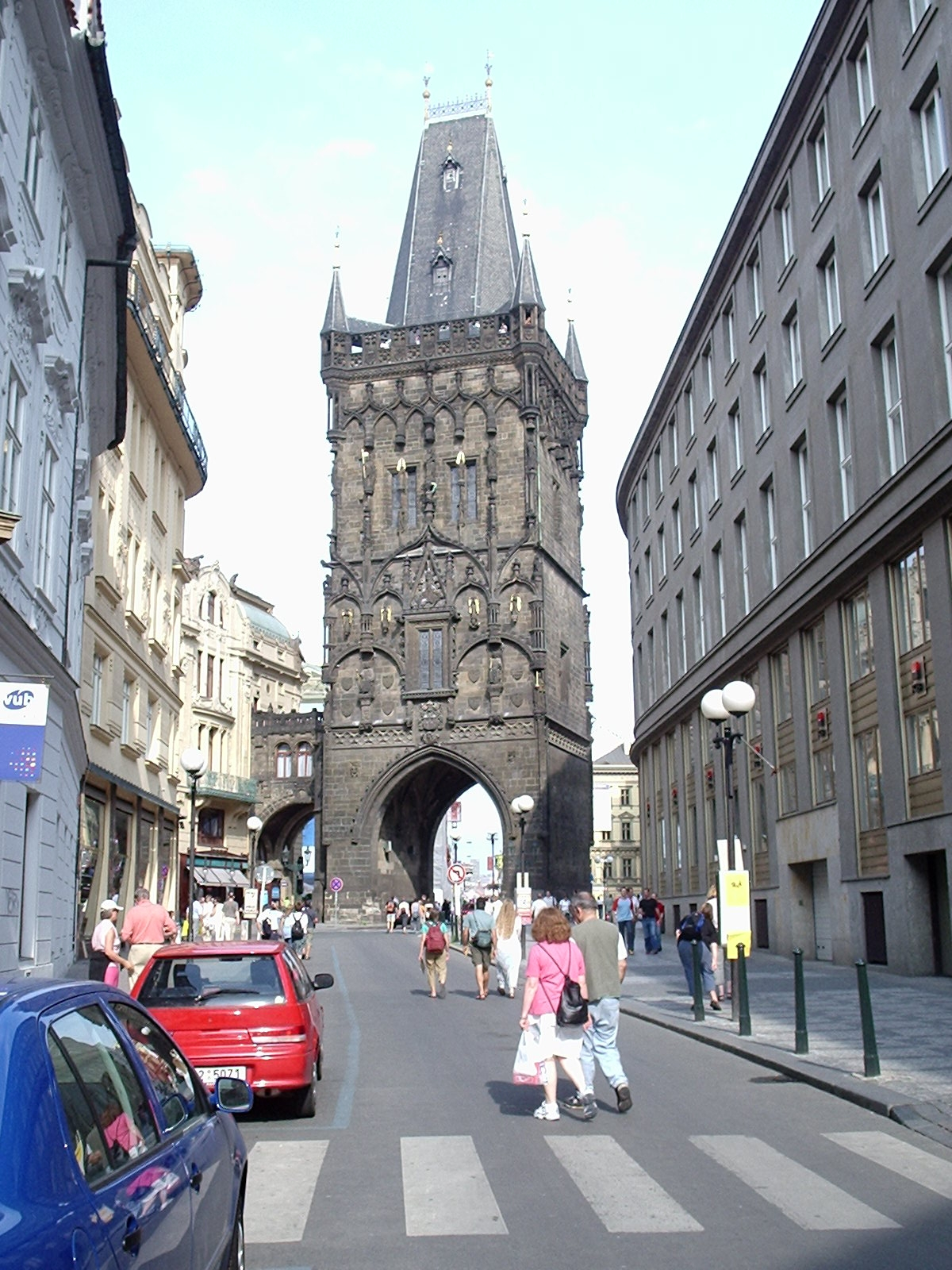 Built in the 15th century (at the site of an older 11th century gate, one of the original 13 gates of the old walled city), the Powder Gate in Prague is so named because it was used to hold gunpowder in the 17th century.